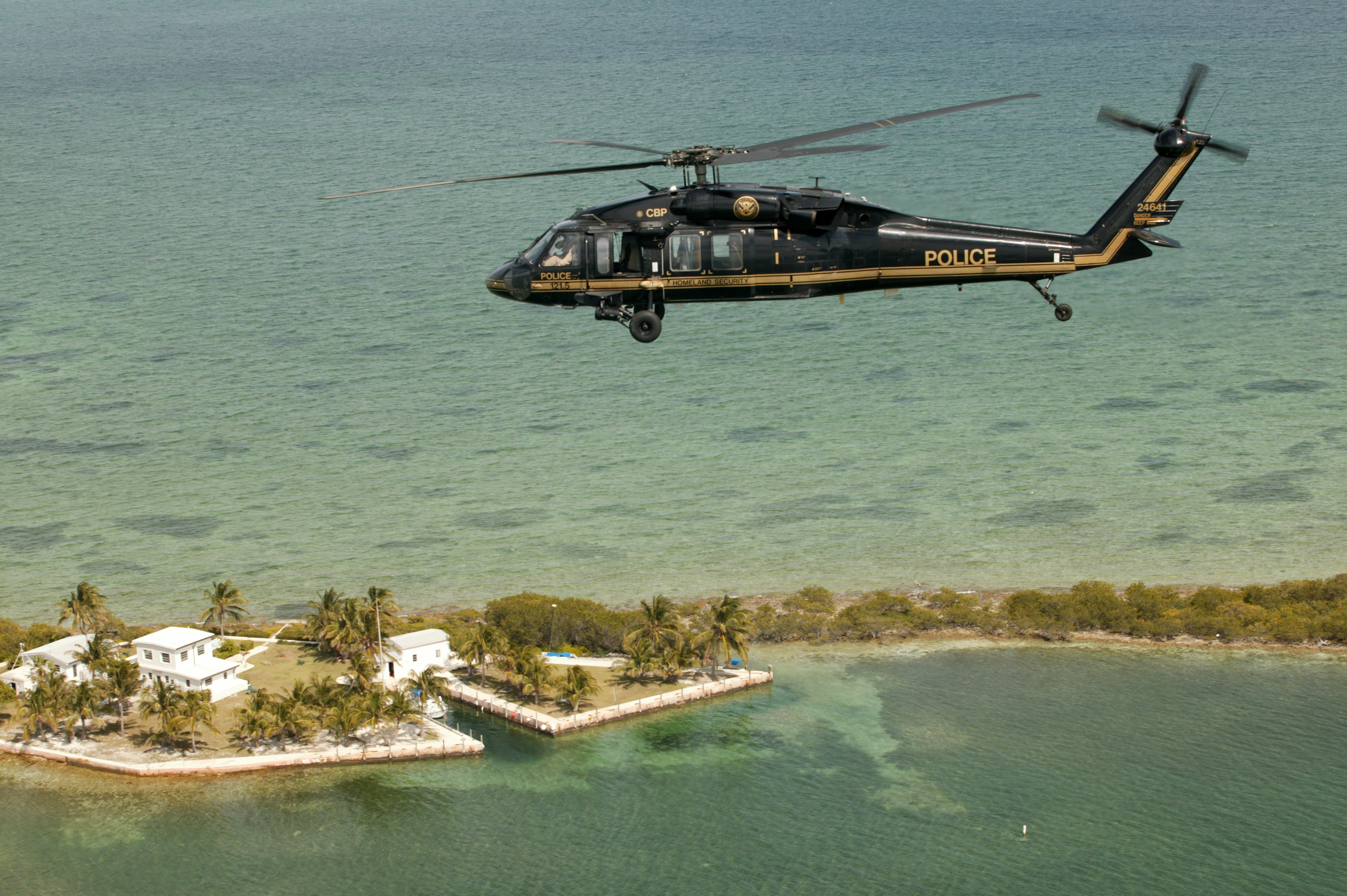 U.S. Customs and Border Protection Sikorsky UH-60 Blackhawk helicopter performing an Air Operation